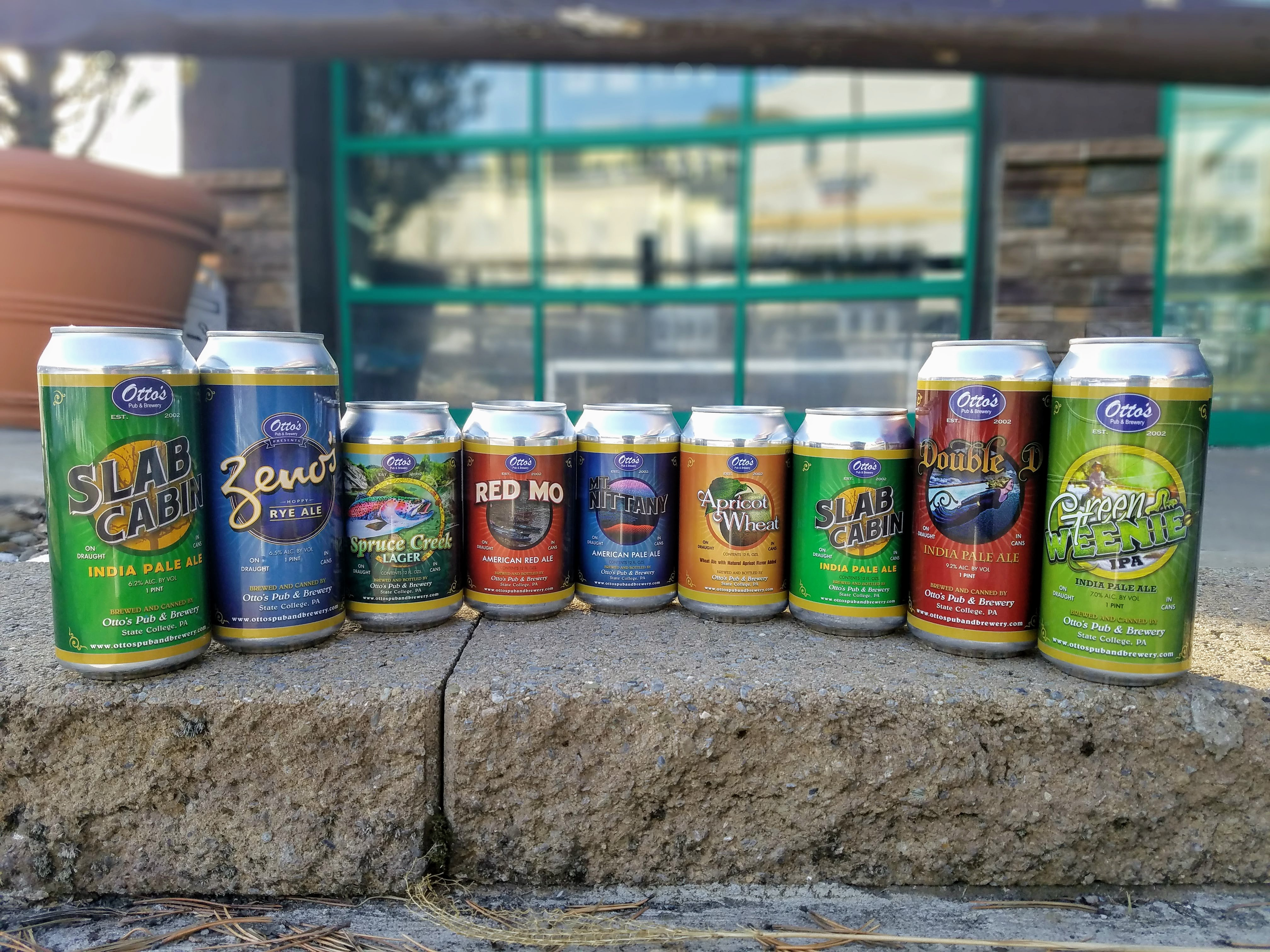 Otto's core beers include Apricot Wheat, Red Mo Ale, Mt. Nittany Pale Ale, Slab Cabin IPA, Double D IPA, Zeno's Rye Ale, and Green Weenie IPA